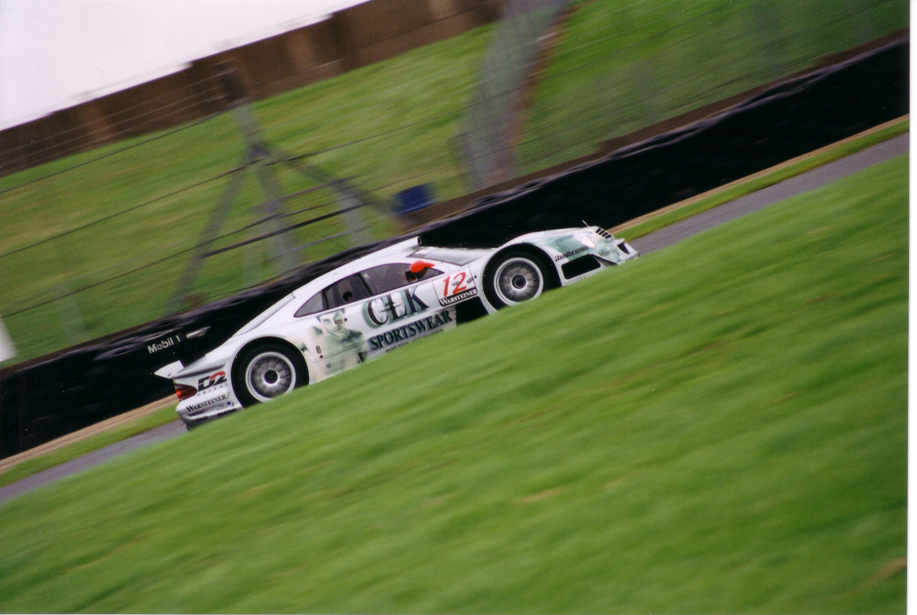 Klaus Ludwig Donnington 12/9/1997 Scanned from 35mm Canon EOS 100